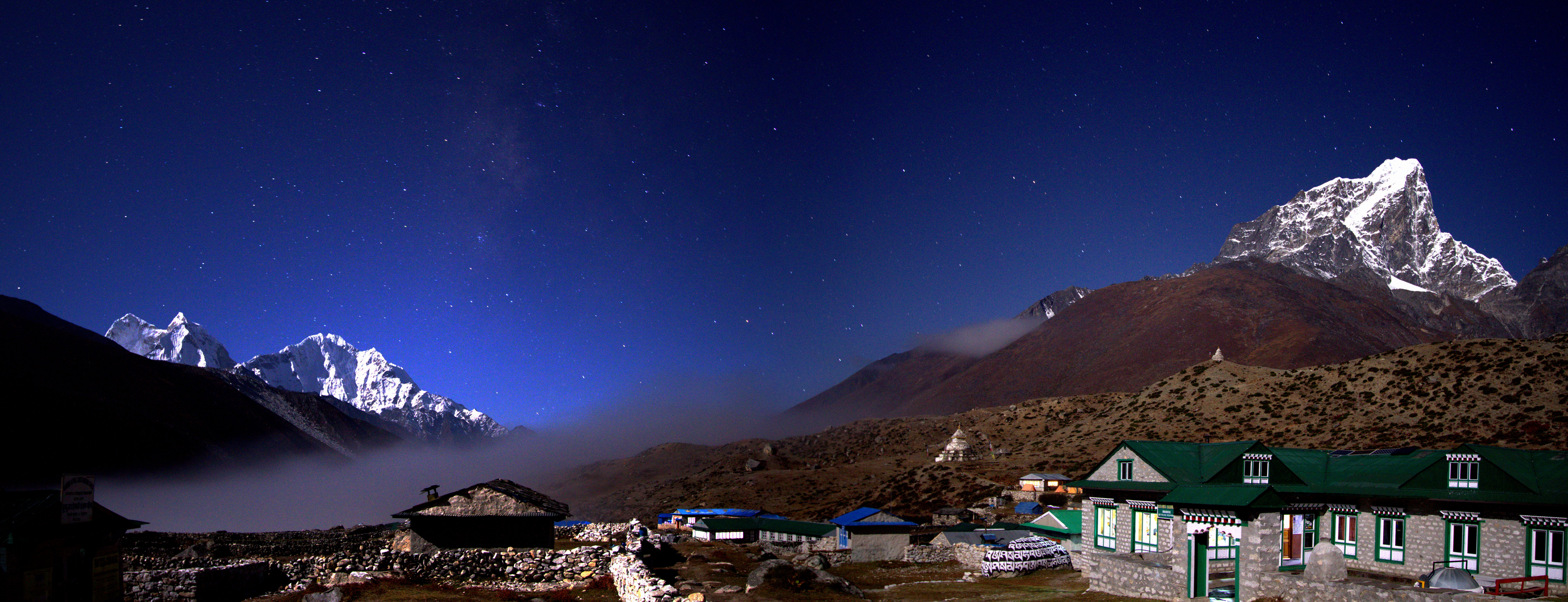 Dingboche Nepal at night; Kantega and Thamserku on the left, Cholatse on the right